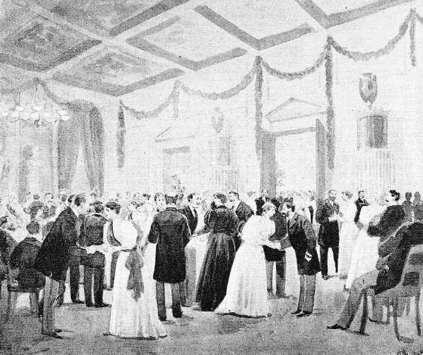 The Womens' Exhibition in Copenhagen, 1895